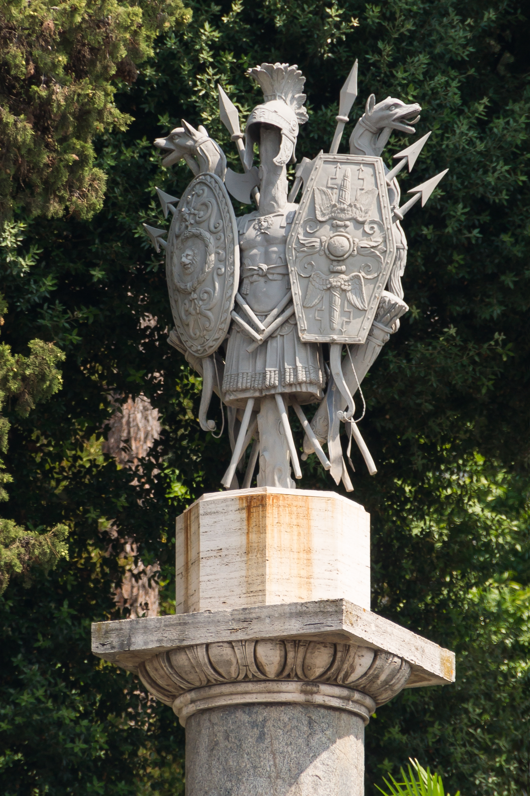 a Roman mode Trophy, Fountain of the "Dea Romana", Piazza del Popolo, Rome, Italy.